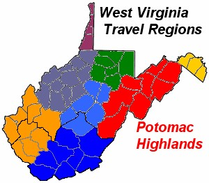 West Virginia Travel Regions, General Information: Potomac Highlands, New River Greenbrier Valley, Eastern Panhandle, Mountaineer Country, Northern Panhandle, Mountain Lakes, Metro Valley, Mid-Ohio Valley based on Citynet Tourism Info.